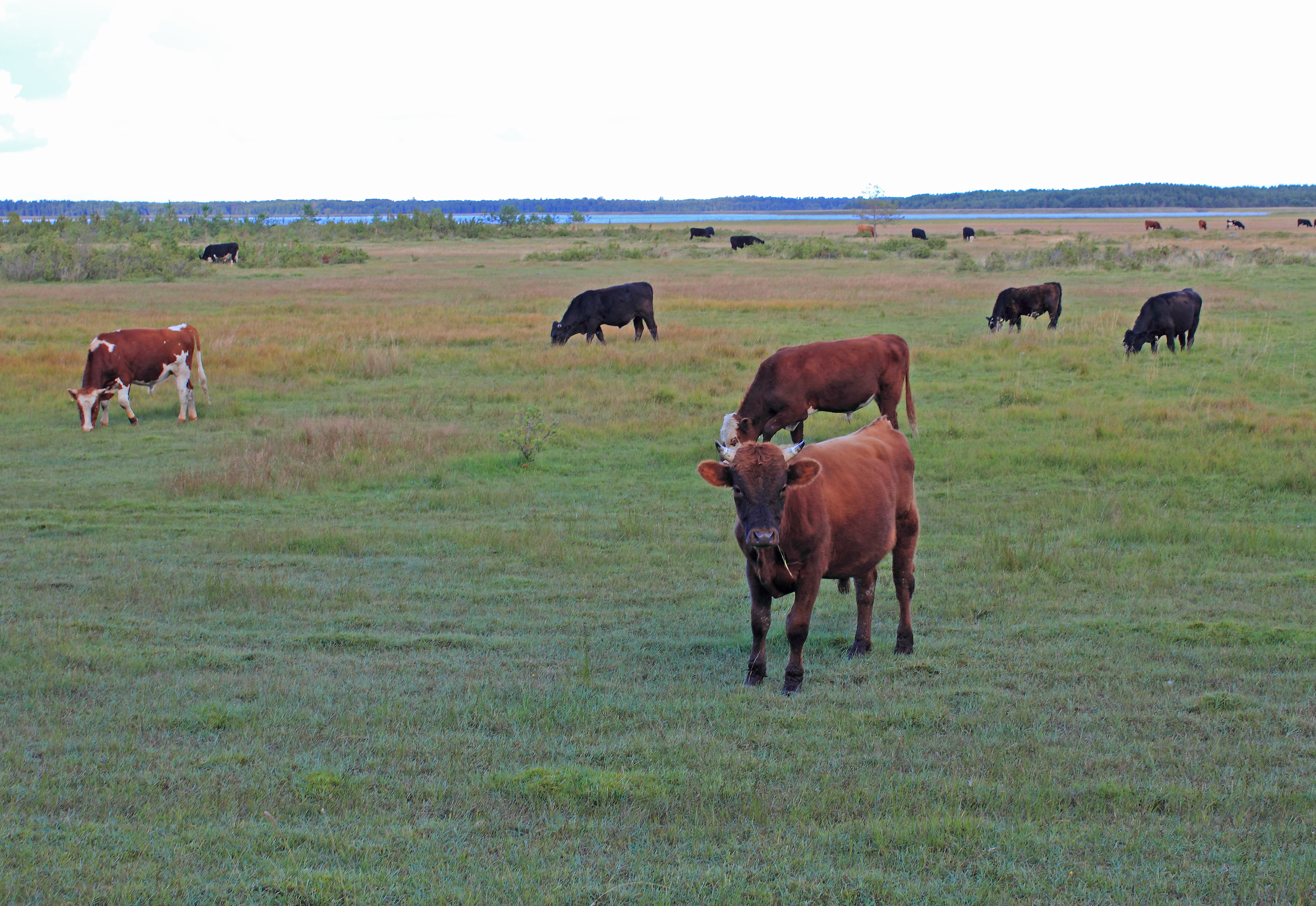 Cows on the coastal meadow at Kassari. Hiiumaa island, Estonia.